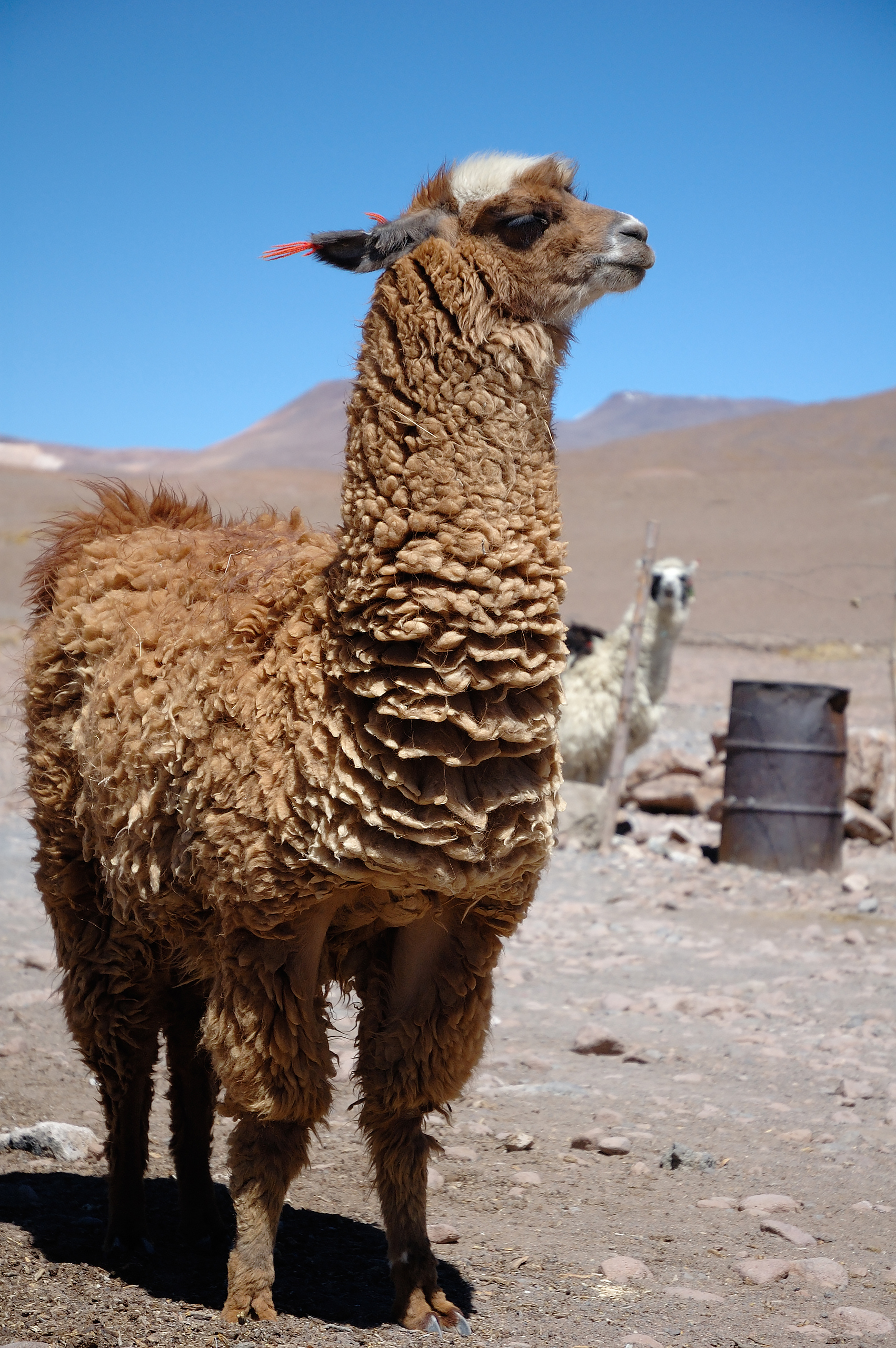 Picture taken in the most southern part of Bolivia, near the borders with Chile and Argentina.